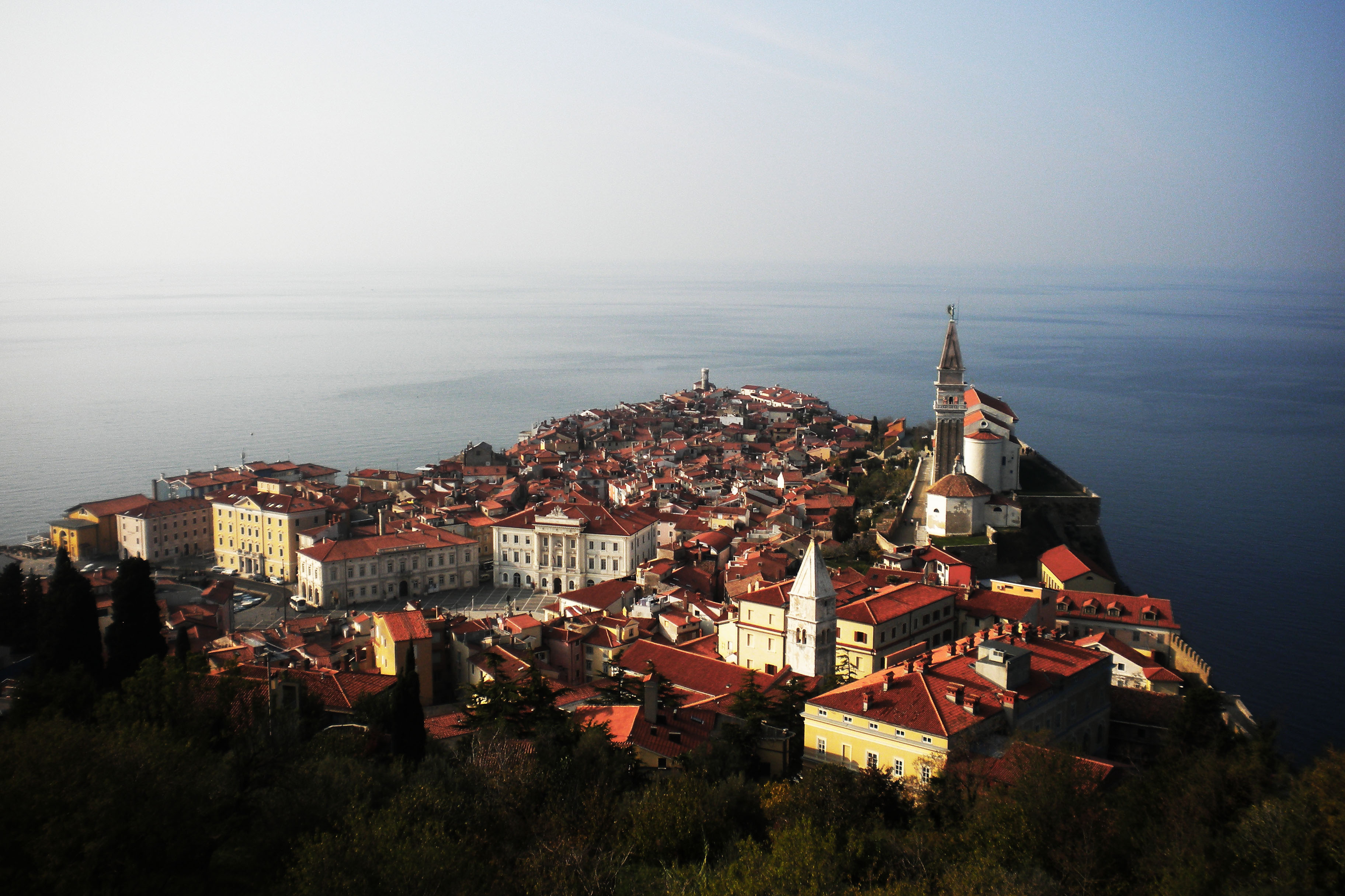 Beautiful view of Piran. Picture taken from the Town Wall.